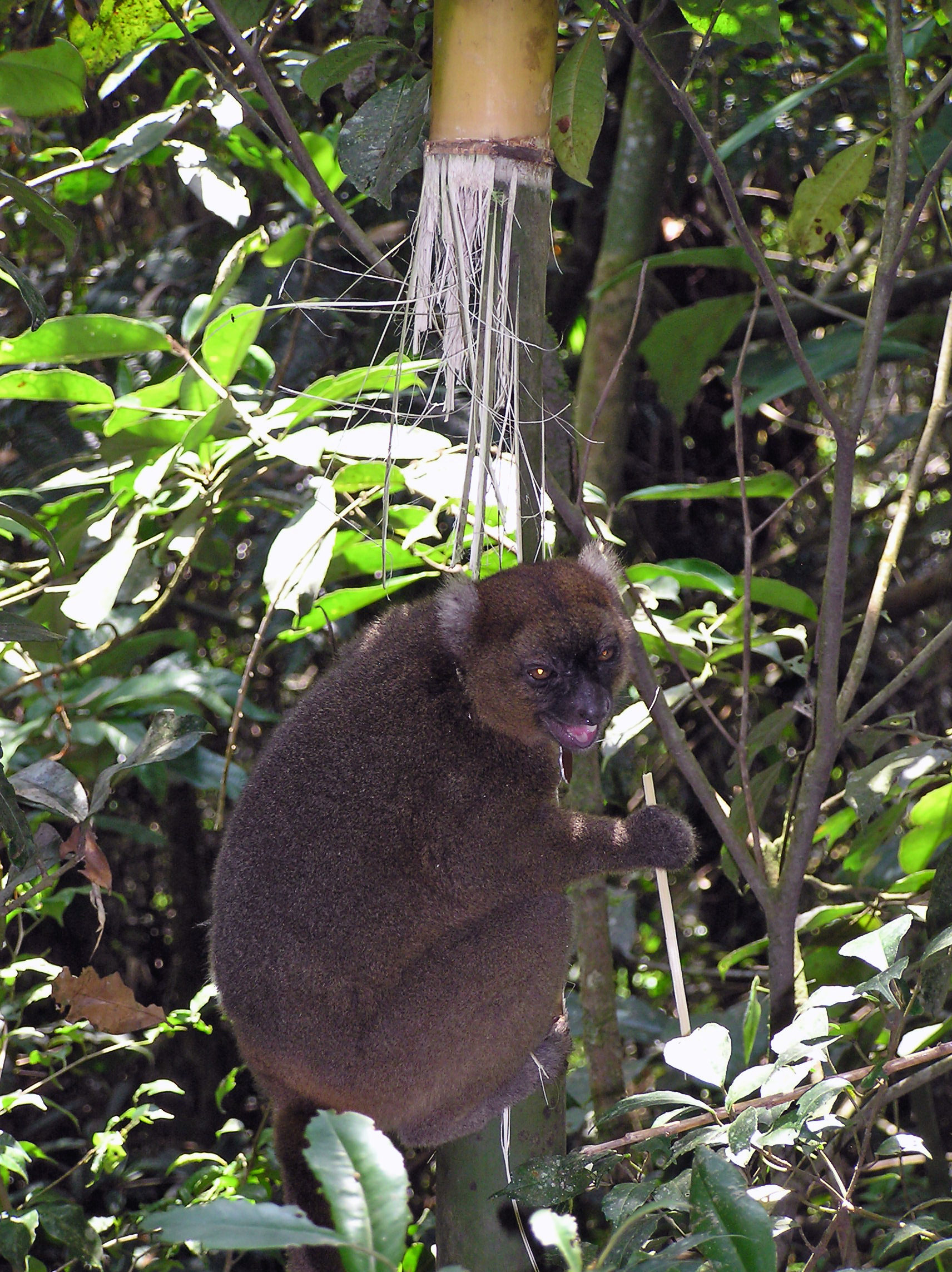 Greater Bamboo Lemur (Prolemur simus) eating giant bamboo in its natural habitat in Madagascar